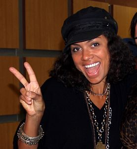 Photo of Amel Larrieux taken in San Diego by Phil Konstantin